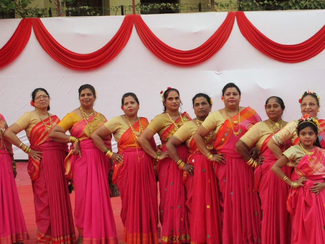 These are the traditional people dressed in the East Indian costume of Mumbai